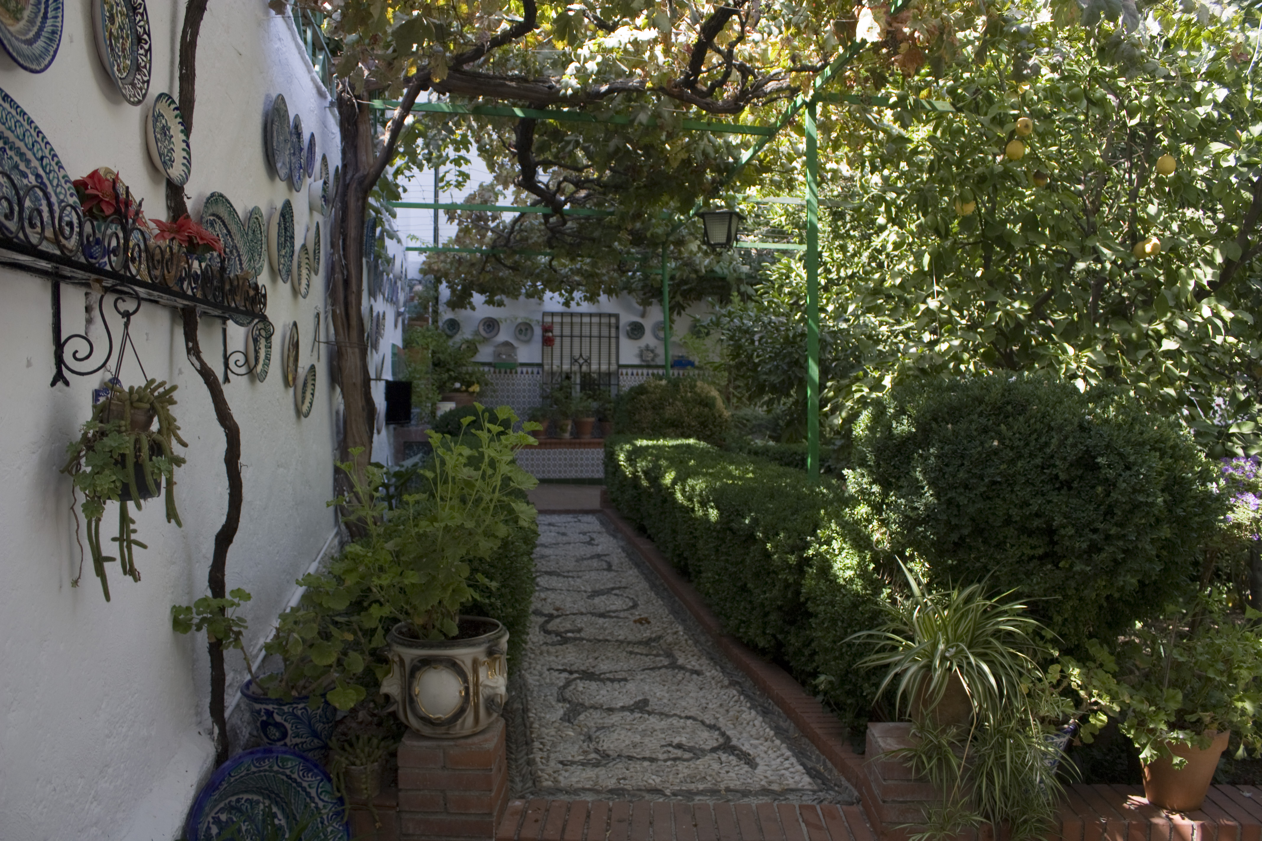 Courtyard of the “Carmen des las estrellas”.